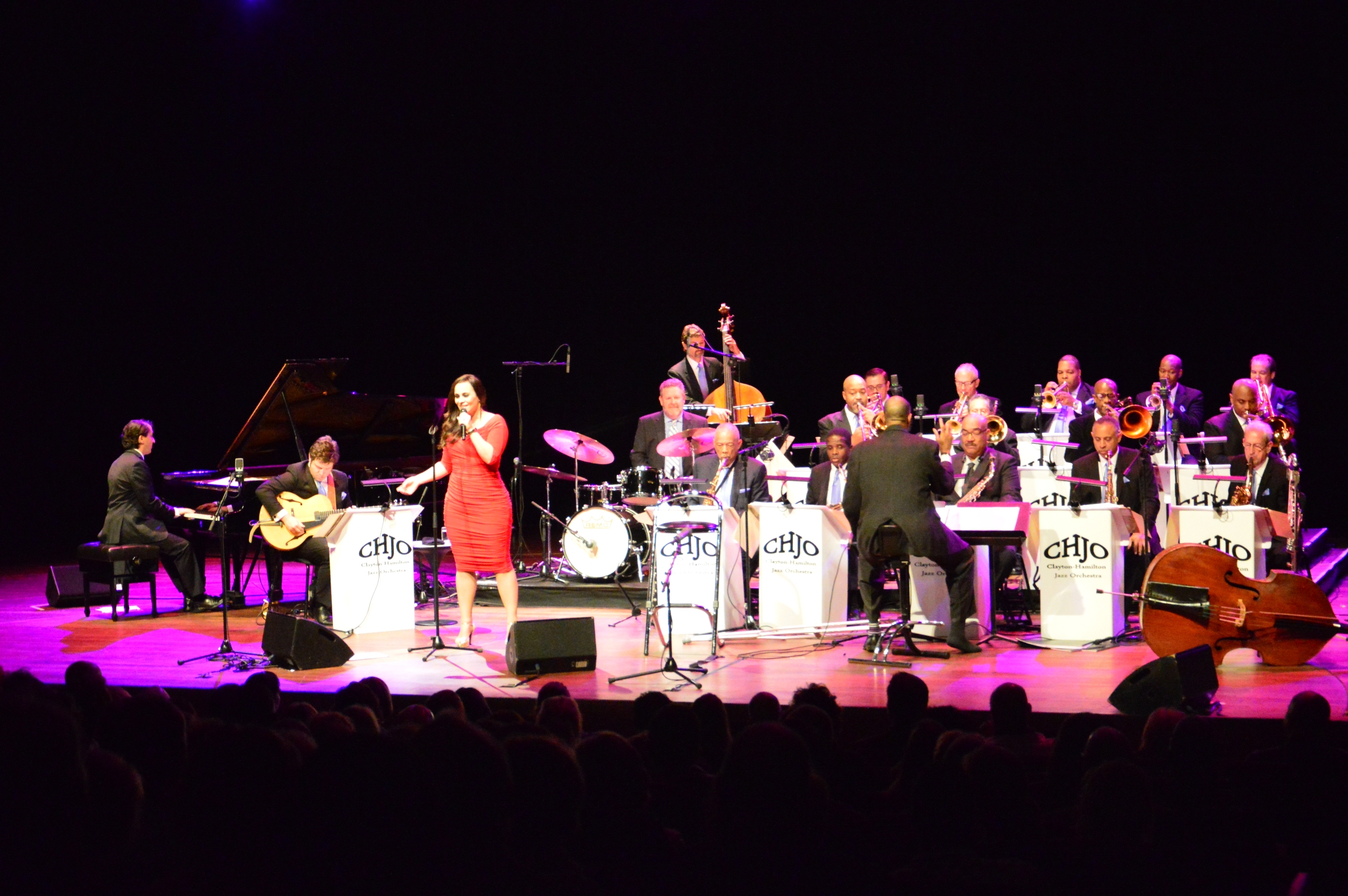 Singer Trijntje Oosterhuis with the Clayton Hamilton Jazz Orchestra in "De Doelen", Rotterdam, the Netherlands.